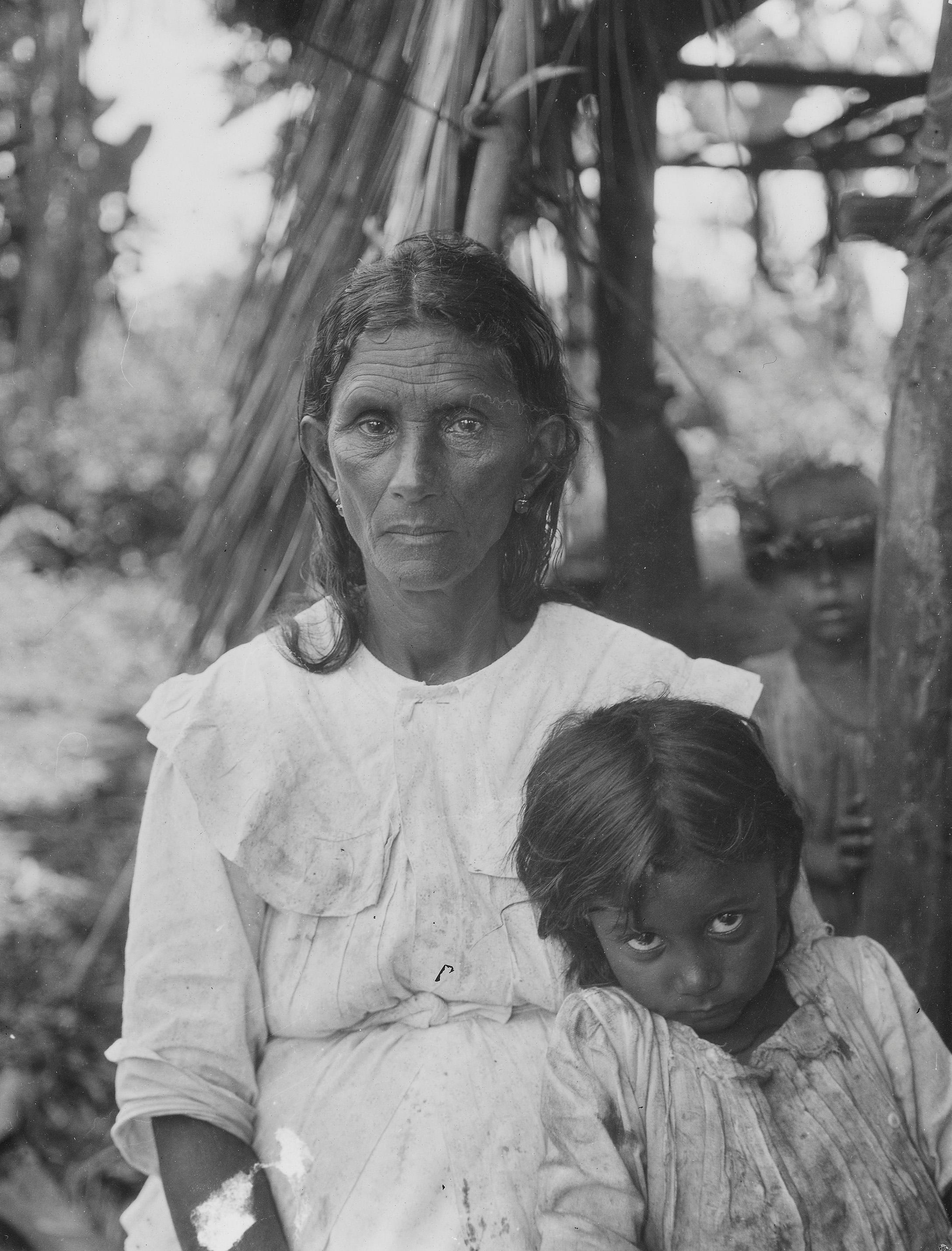 1919 Native woman and child in Baracoa, Cuba